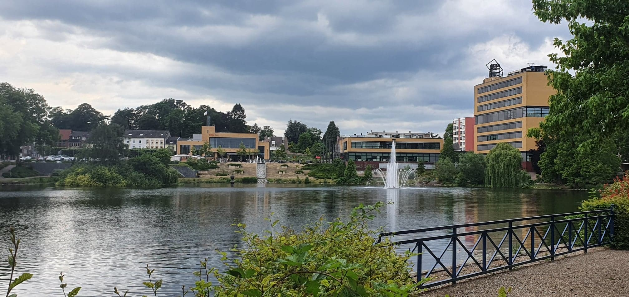 Park in the Dutch city of Brunssum